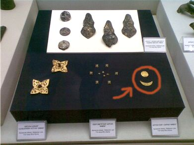 Symbol of the Xiongnu: Mongolia, Khovd province, Takhiltyn khotgor